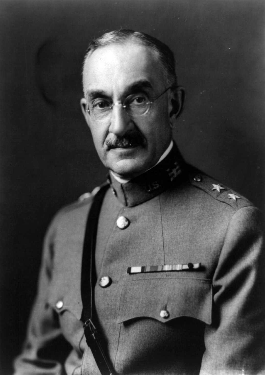 Maj. Gen. Harry Taylor, US Army Corps of Engineeres